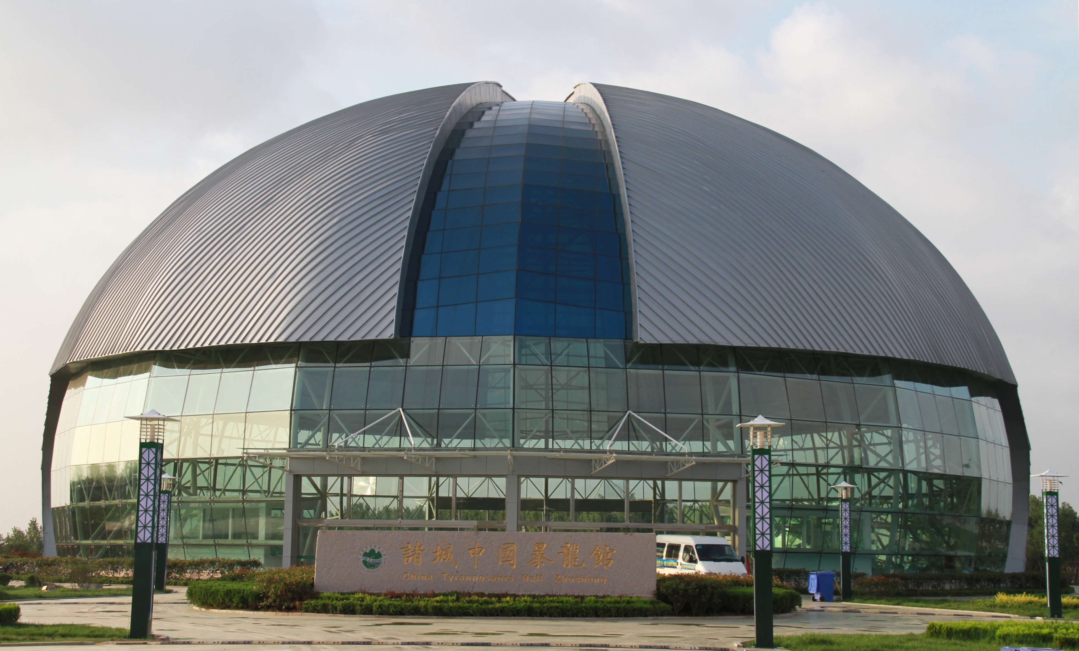 Photograph of the Tyrannosaurus exhibition hall in Zhucheng, Shandong, China.